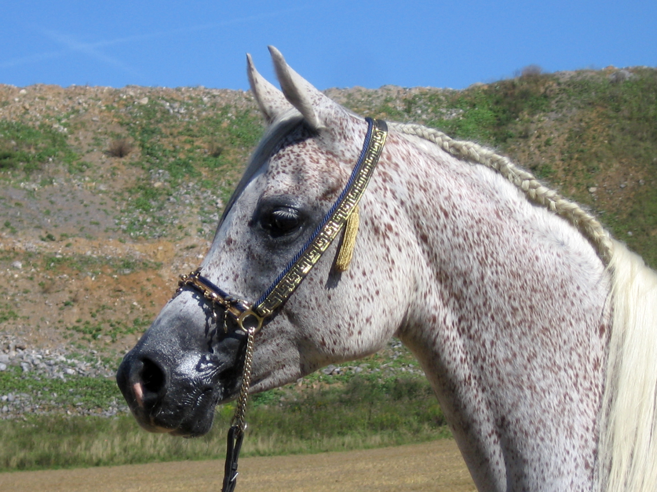 asil arabian mare at the Asil Cup International 2008 at castle of Wocklum in Balve/Germany